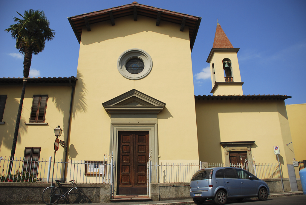 the Church of San Quirico at Legnaia, Florence, Italy. Facade and Bell Tower.